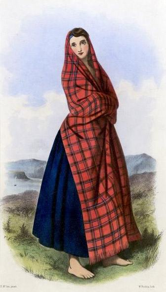 "Sinclair". A plate illustrated by R. R. McIan, from James Logan's The Clans of the Scottish Highlands, published in 1845.